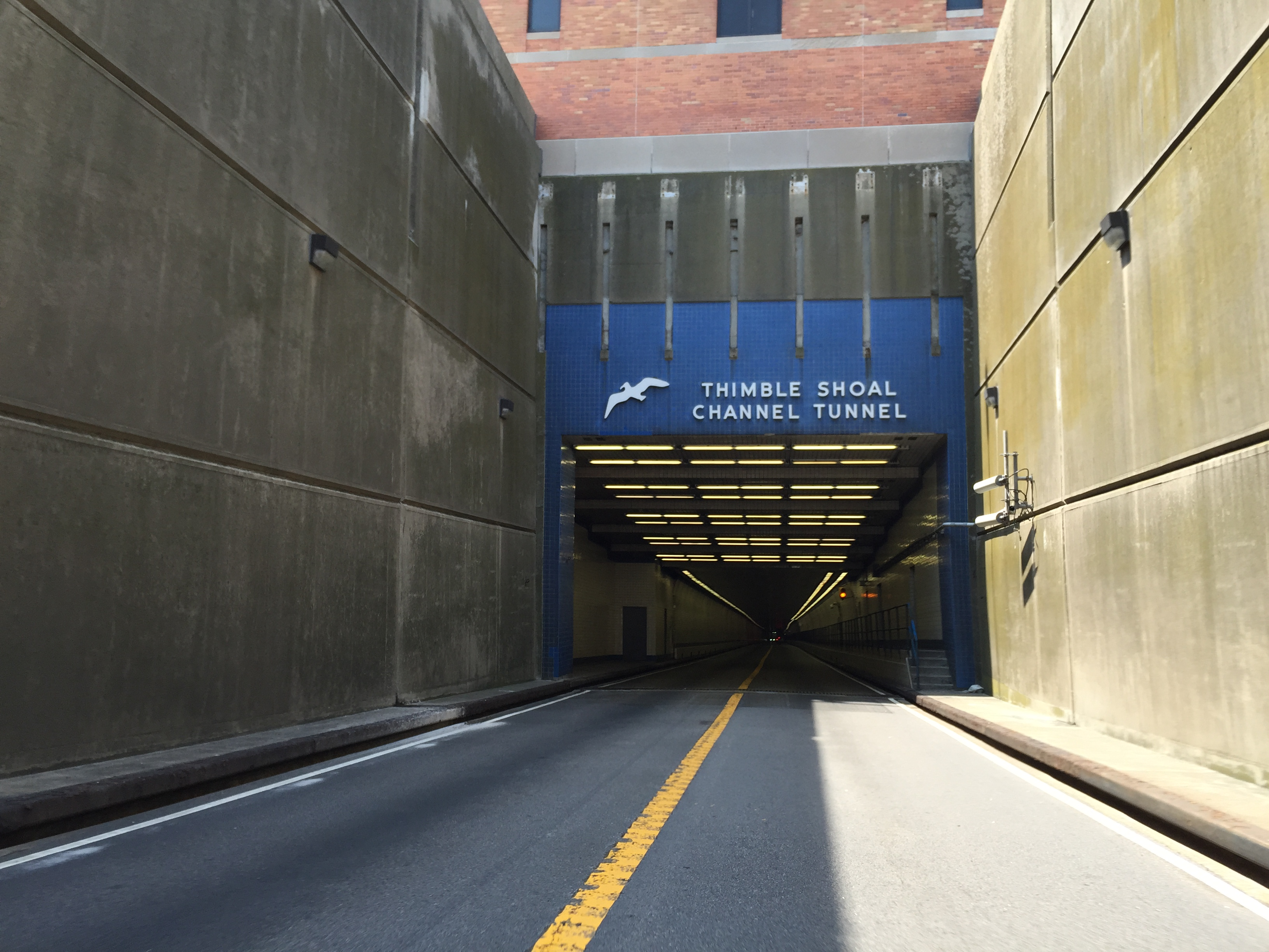 View south along U.S. Route 13 (Chesapeake Bay Bridge-Tunnel) entering the north portal of the Thimble Shoal Channel Tunnel in Chesapeake Bay, Virginia Beach, Virginia